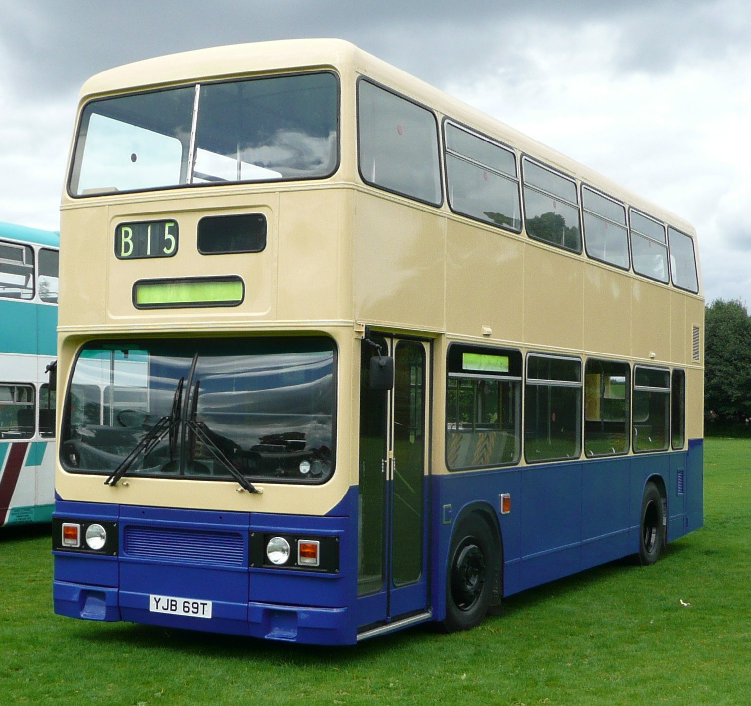 Preserved Reading Transport bus 69 (reg. YJB 69T), a 1979 Leyland Titan (B15), at the 2008 Alton bus rally in Anstey Park, Alton, Hampshire. It has been partly restored into the colours of the company's Goldline Travel private hire division, of which 69 was briefly part between 2000 and 2002. For a full history, please see the later image, taken at the 2009 Cobham bus rally (still in this condition).